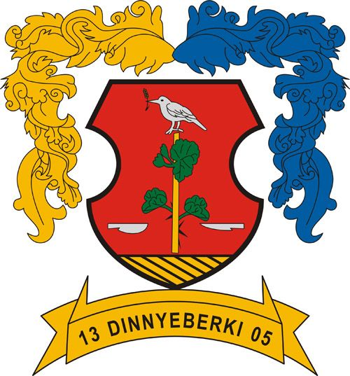 Coat of arms of Dinnyeberki, Hungary